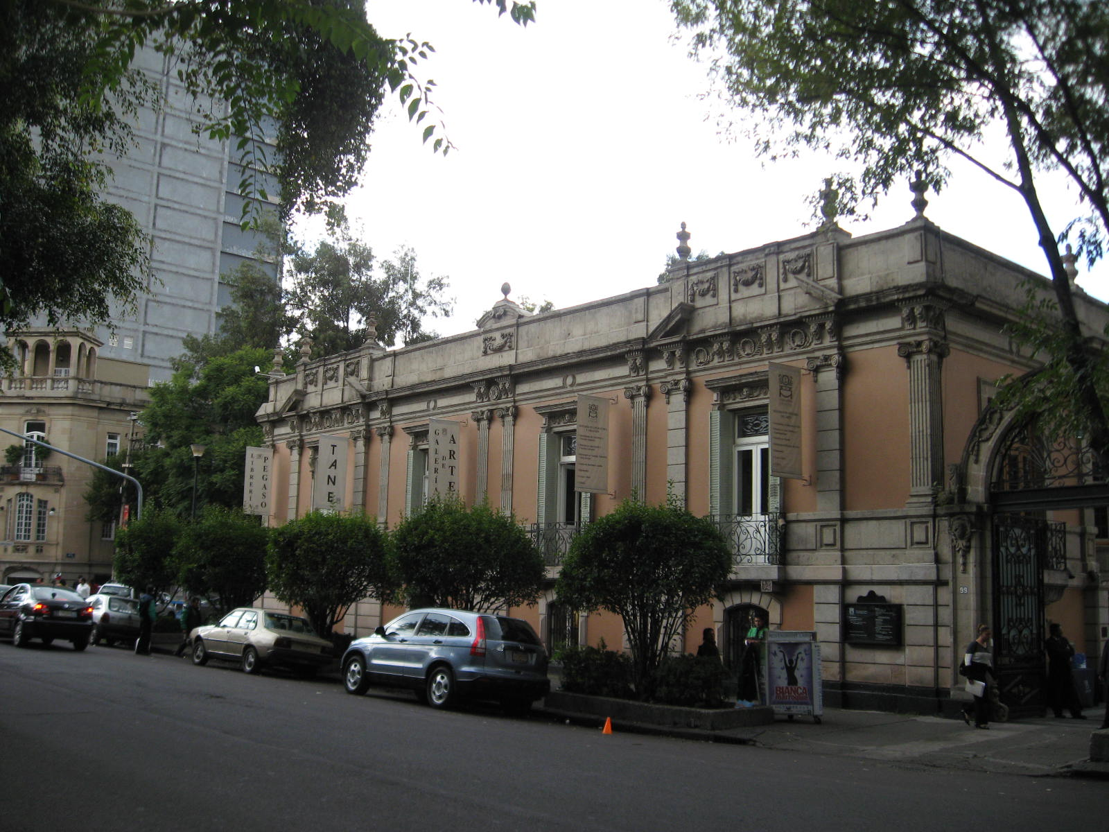 An art gallery located on Obregon and Orizaba Streets in Colonia Roma, Mexico City